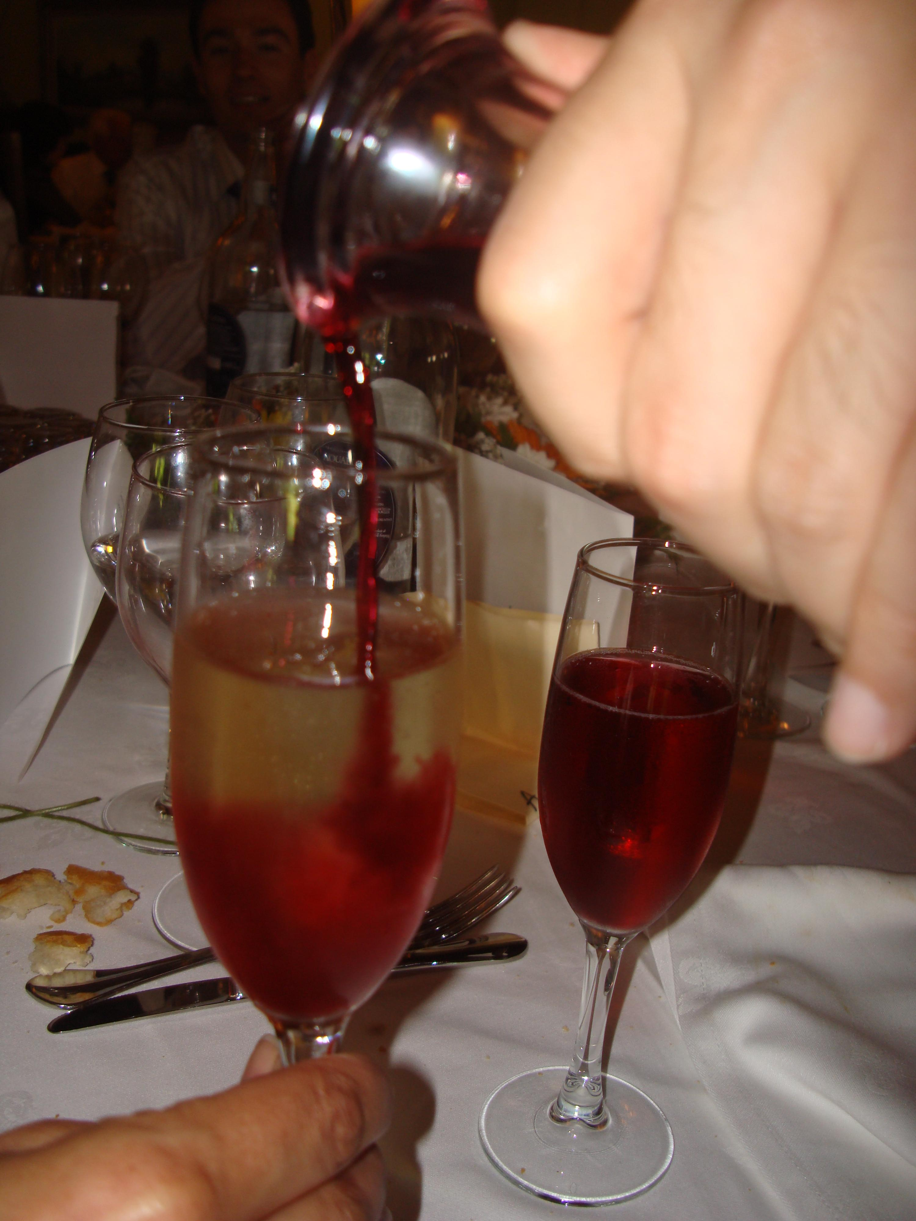 Cava with Cassís (Wedding in Val d'Aran, Catalonian Occitania)